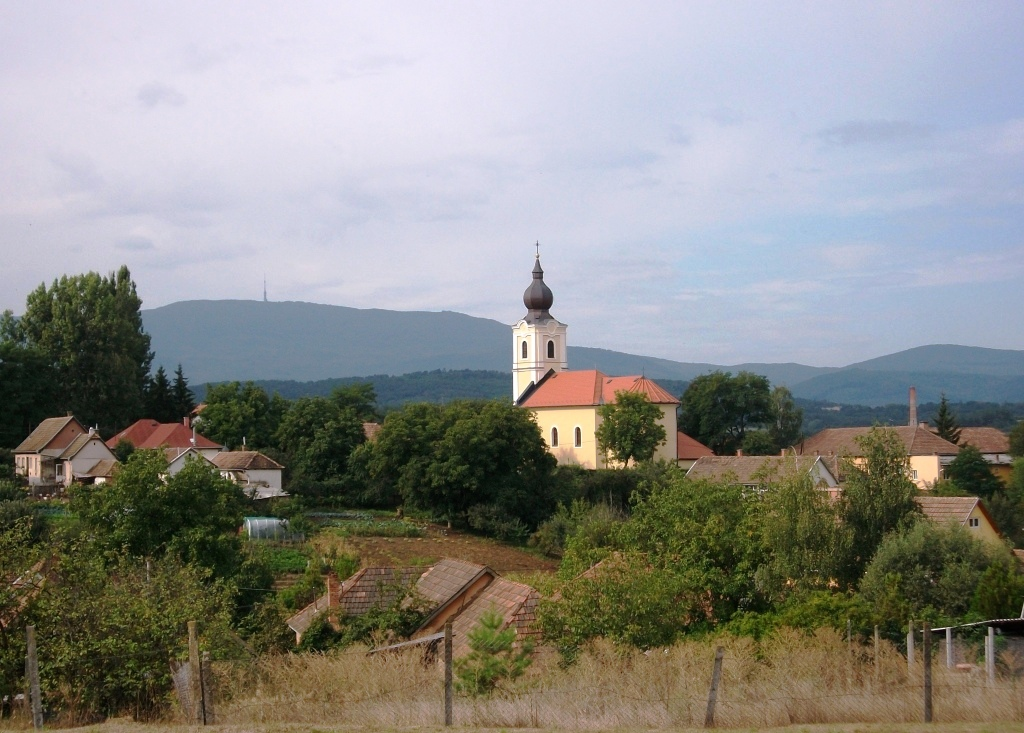 Mátraderecske, Hungary (Kékes peak on background)